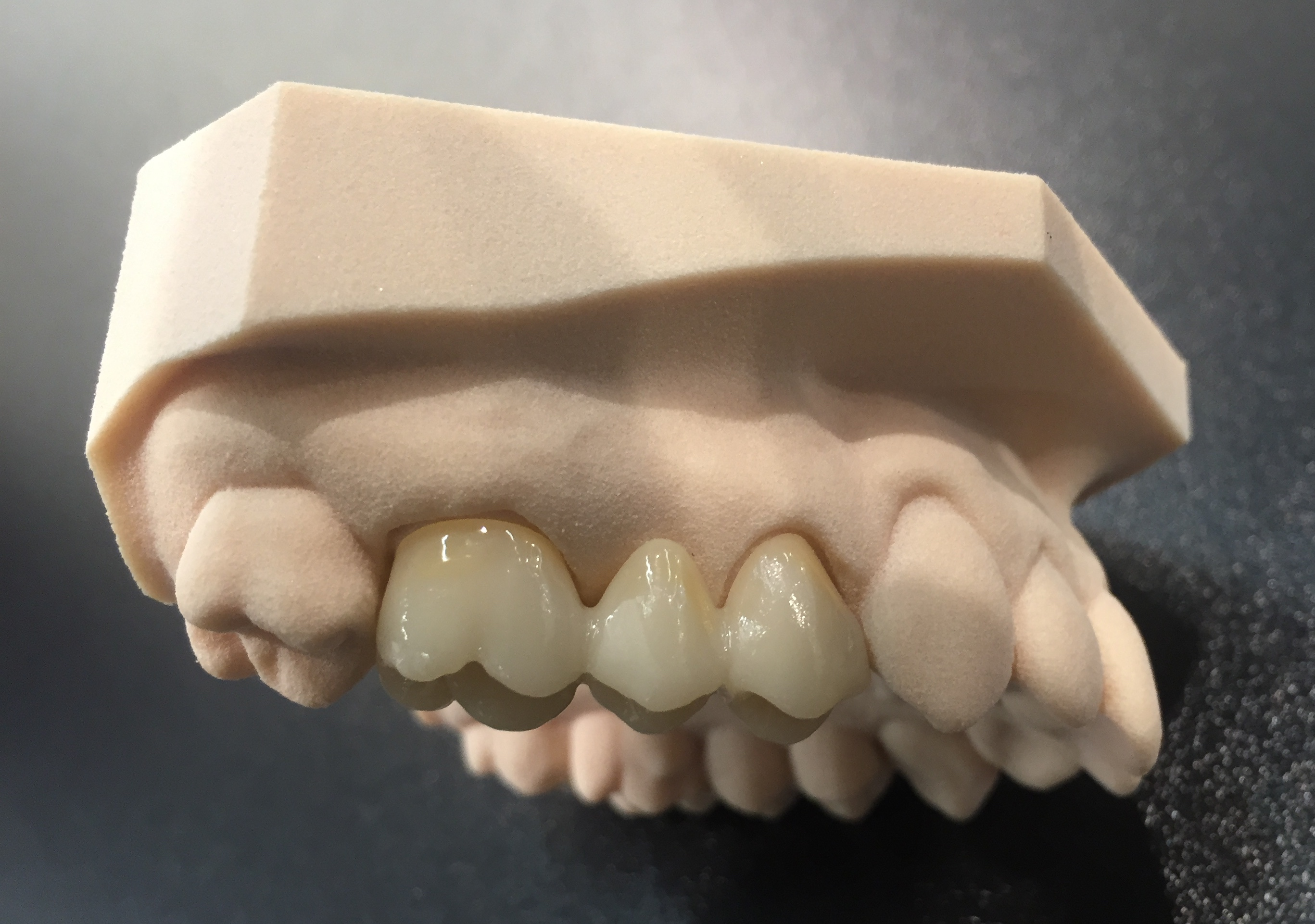 Dental bridge Zirconium dioxide